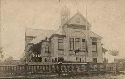 Flesherton Public School, erected 1891 in Flesherton, Ontario, Canada, used as two-room school house for Kindergarten to Grade 8 until 1968